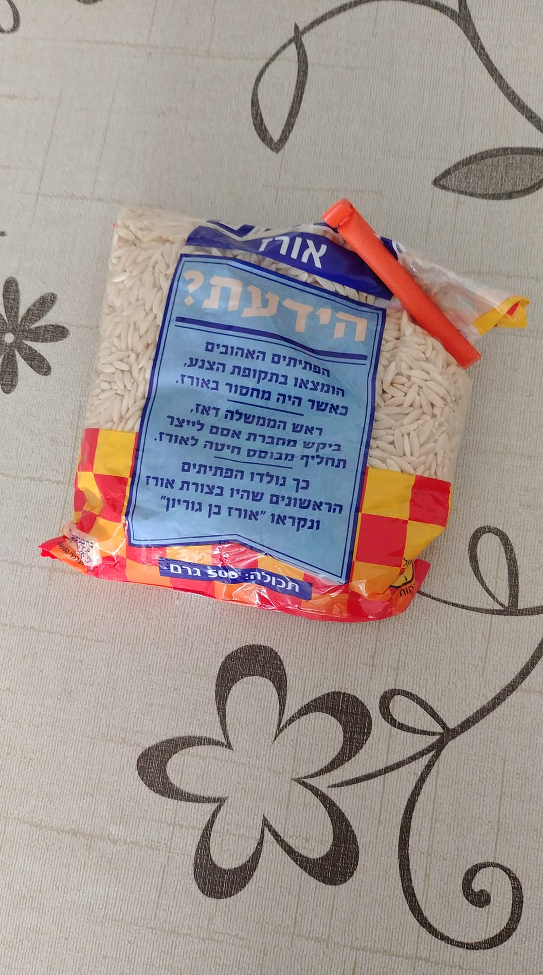 Ptitim - Ben-Gurion rice